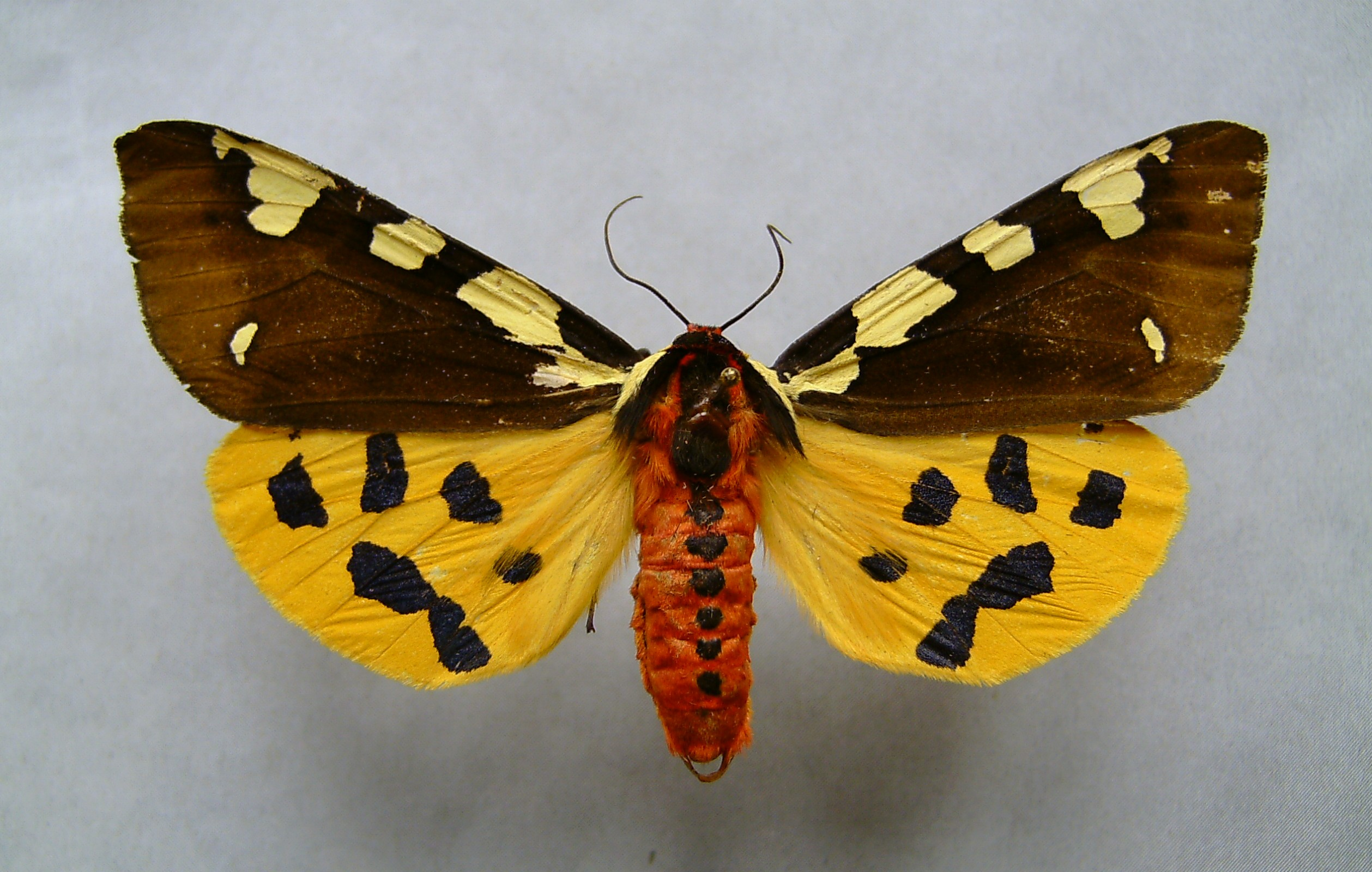 Pericallia matronula, Golling, Salzburg (state), Austria